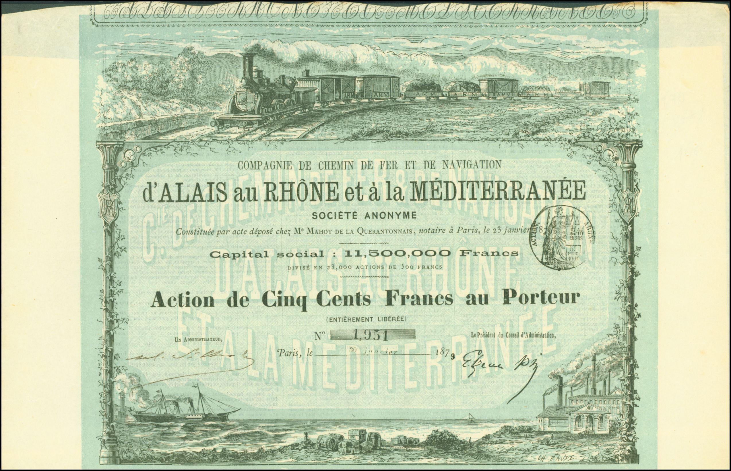 Share of the Compagnie du chemin de fer et de la navigation d'Alais au Rhône et à la Méditerranée, issued 30. January 1879